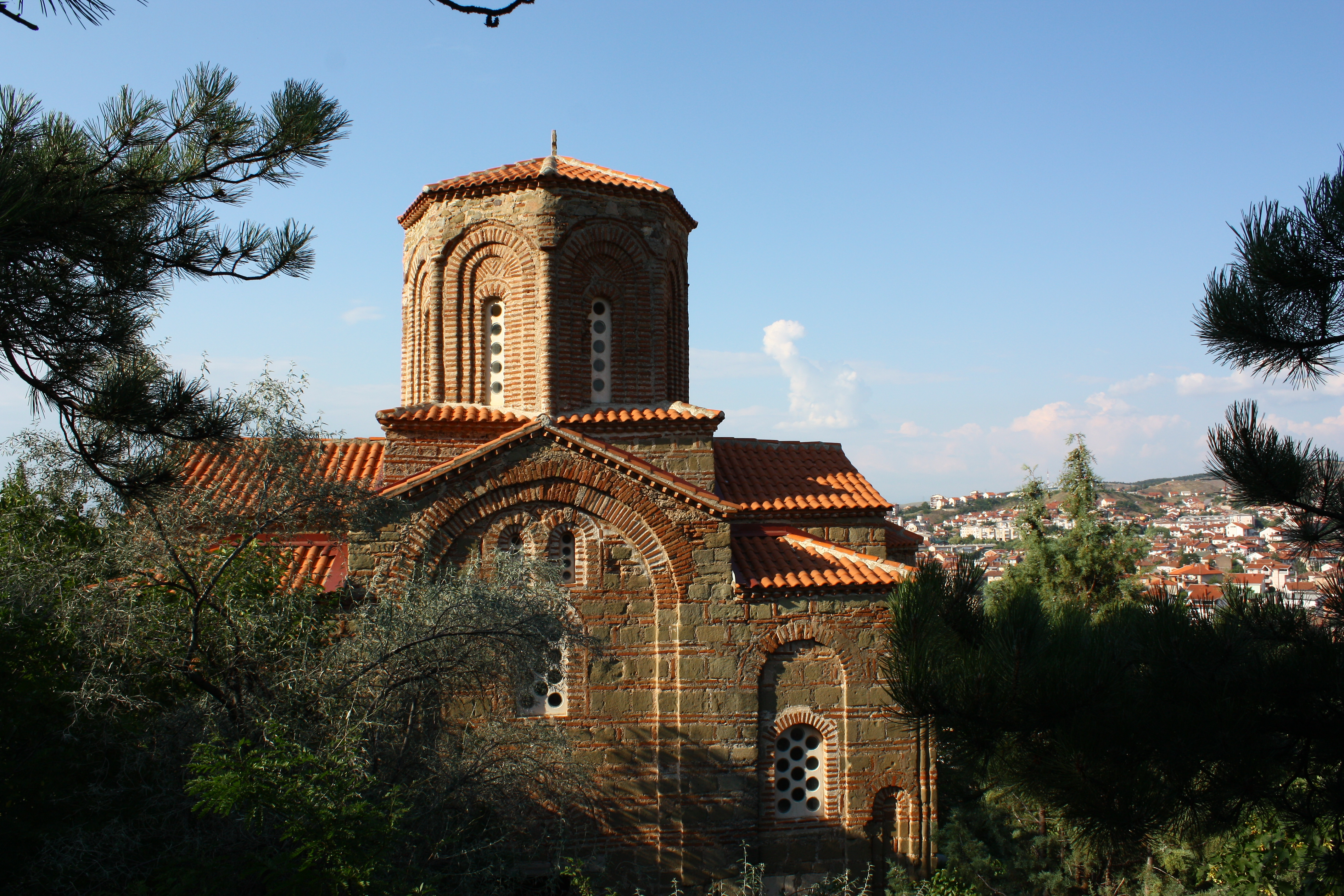 St. Michael the Archangel Church in Štip, Macedonia